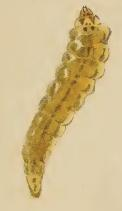 Stainton’s Natural History of the Tineina (1855–1873): Stigmella myrtillella